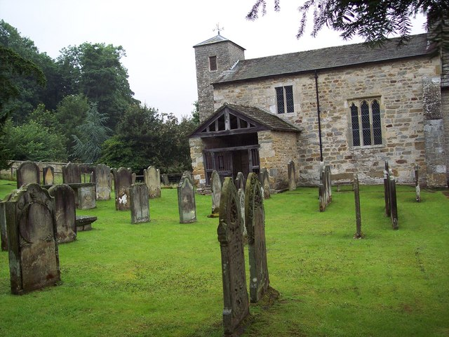 St Gregory's Minster, Kirkdale In England, some 32 churches, (both ancient and modern), are dedicated to Gregory.